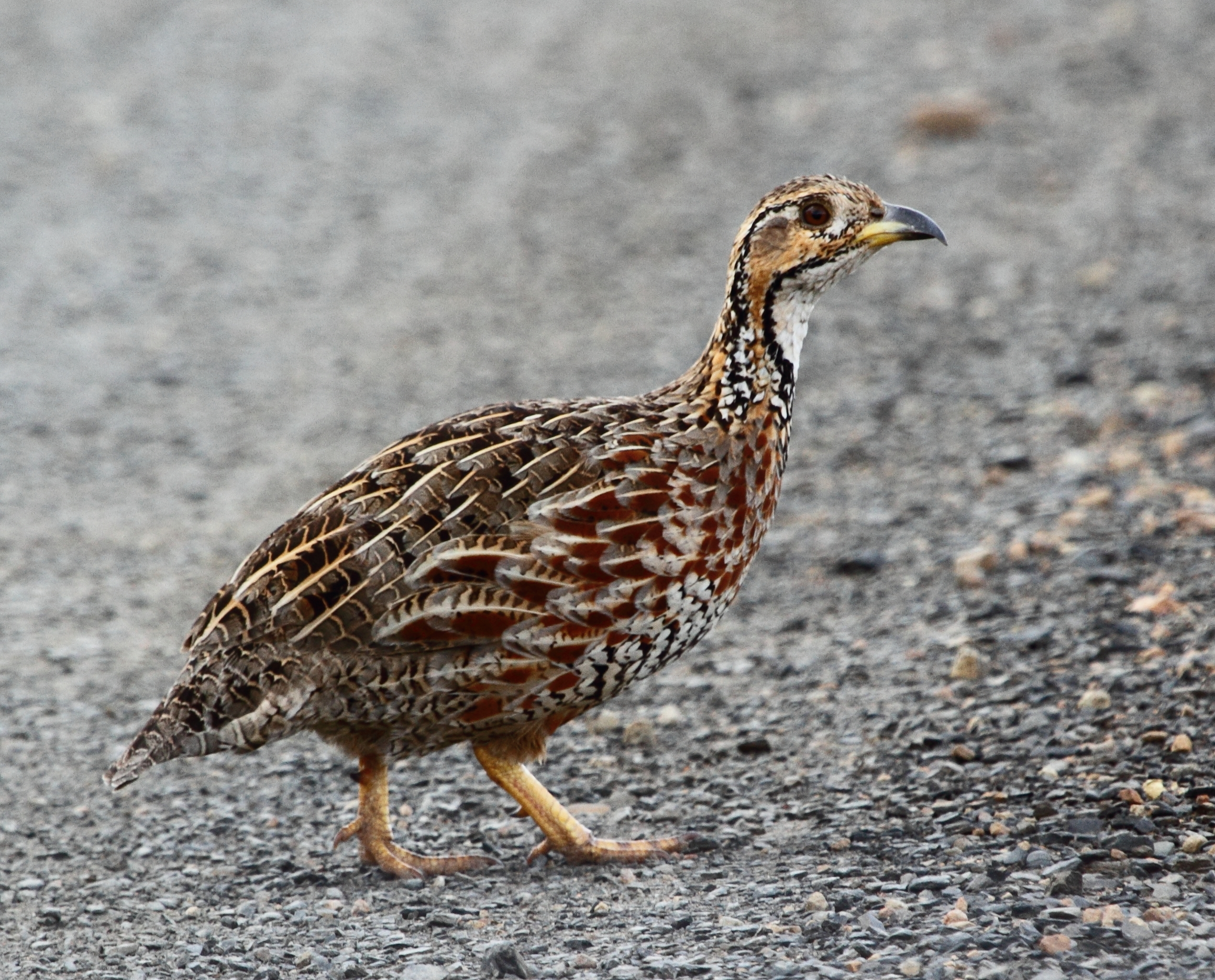 Taken in Itala Game Reserve, KwaZulu-Natal, South Africa